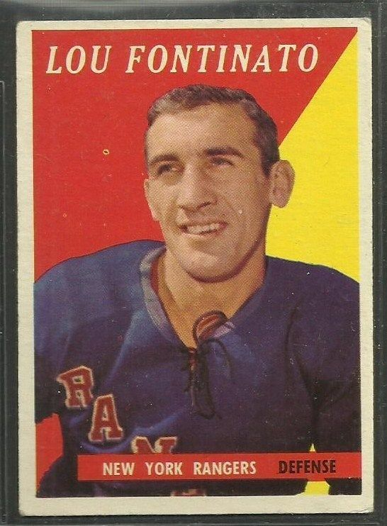 Lou Fontinato